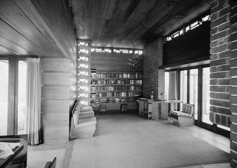 Pope-Leighey House, 9000 Richmond Highway (moved from Falls Church, VA), Mount Vernon vicinity, Fairfax County, VA - Living room.